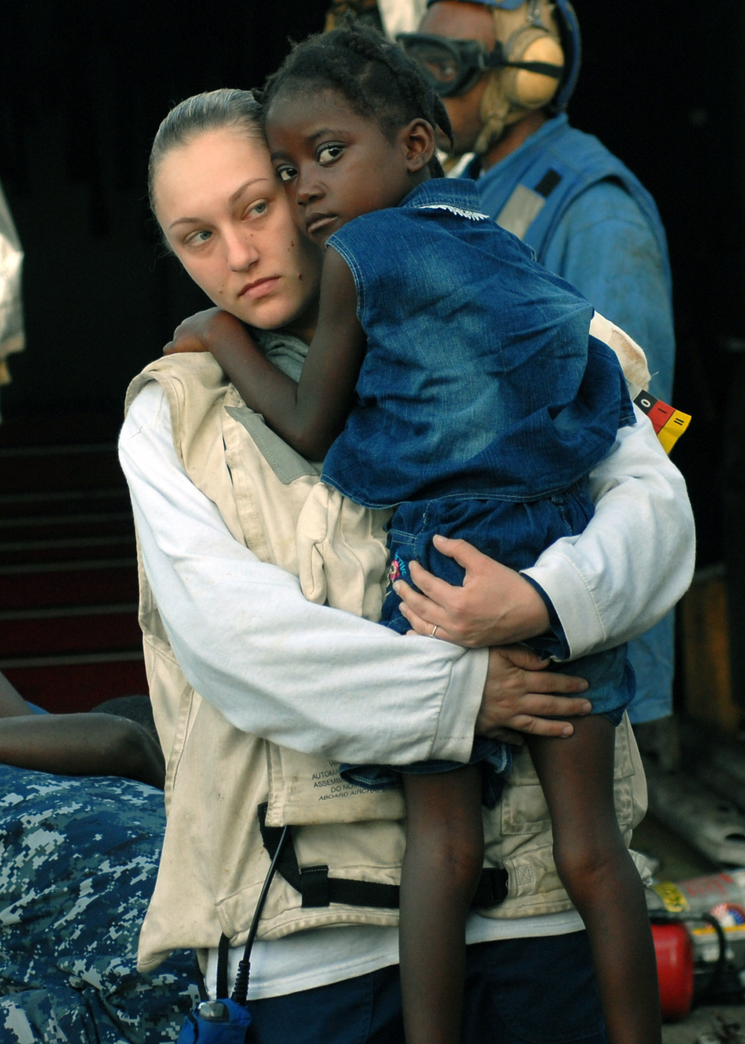 U.S. Navy Petty Officer 3rd Class Katie Blankenship carries an injured Haitian girl while aboard the amphibious dock landing ship USS Fort McHenry (LSD 43) off the coast of Haiti on Jan. 24, 2010. The girl will be flown off the ship to receive additional medical care. The Fort McHenry is currently participating in Operation Unified Response as part of the USS Bataan (LHD 5) Amphibious Relief Mission. The ship is providing military support to civil authorities to help stabilize and improve the situation in Haiti.